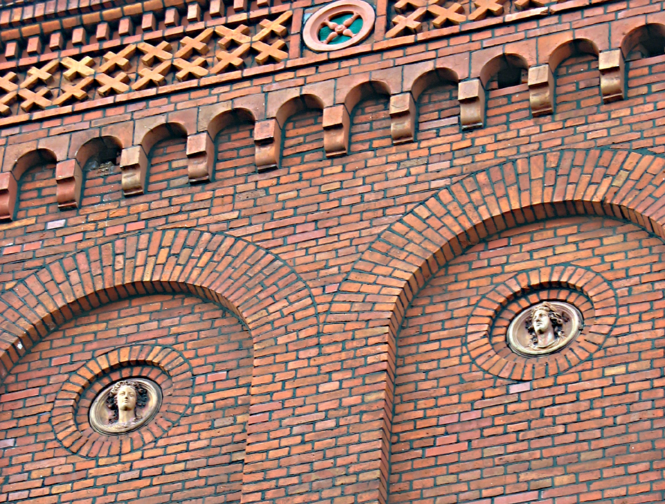 Carvings on the wall of the 5th High School in Gliwice